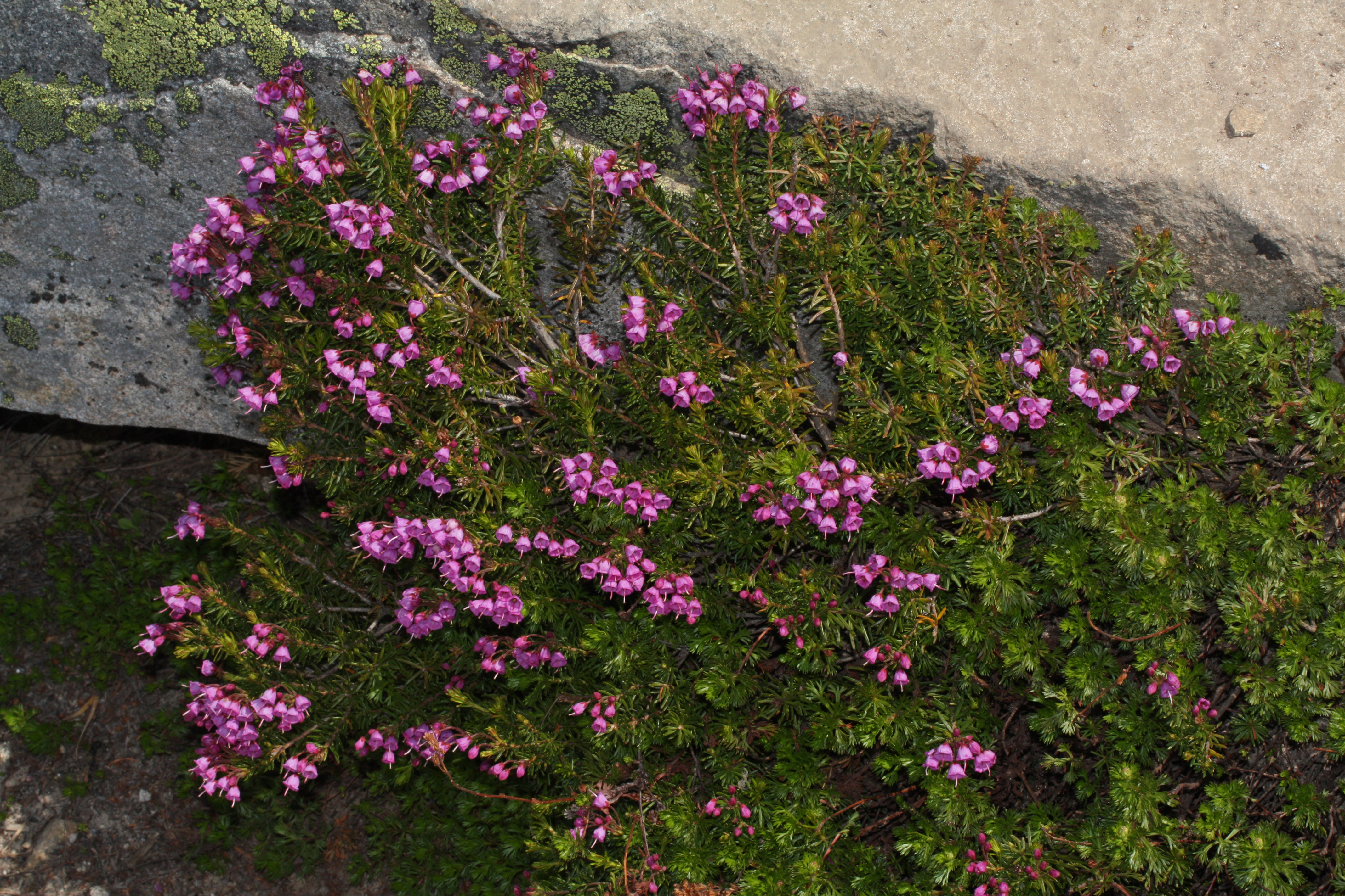 Pink Mountain-heath; Luetkea pectinata (Partridgefoot) foliage, lower right